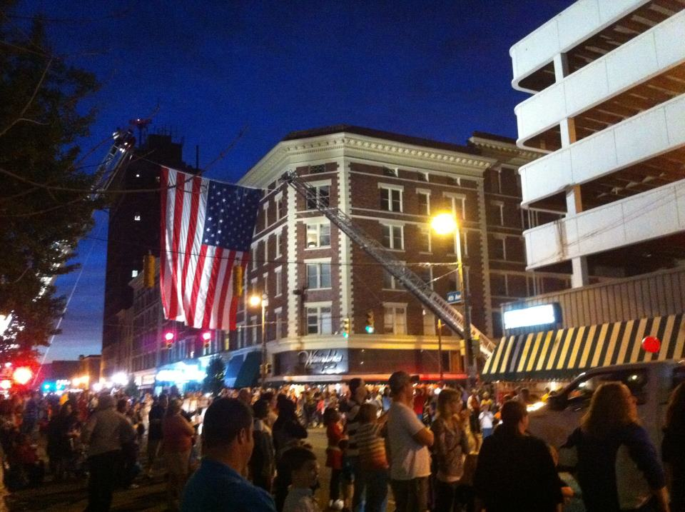 The 2010 Fire Prevention Parade.